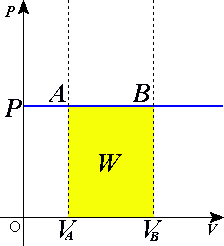 P-V diagram of isobaric process